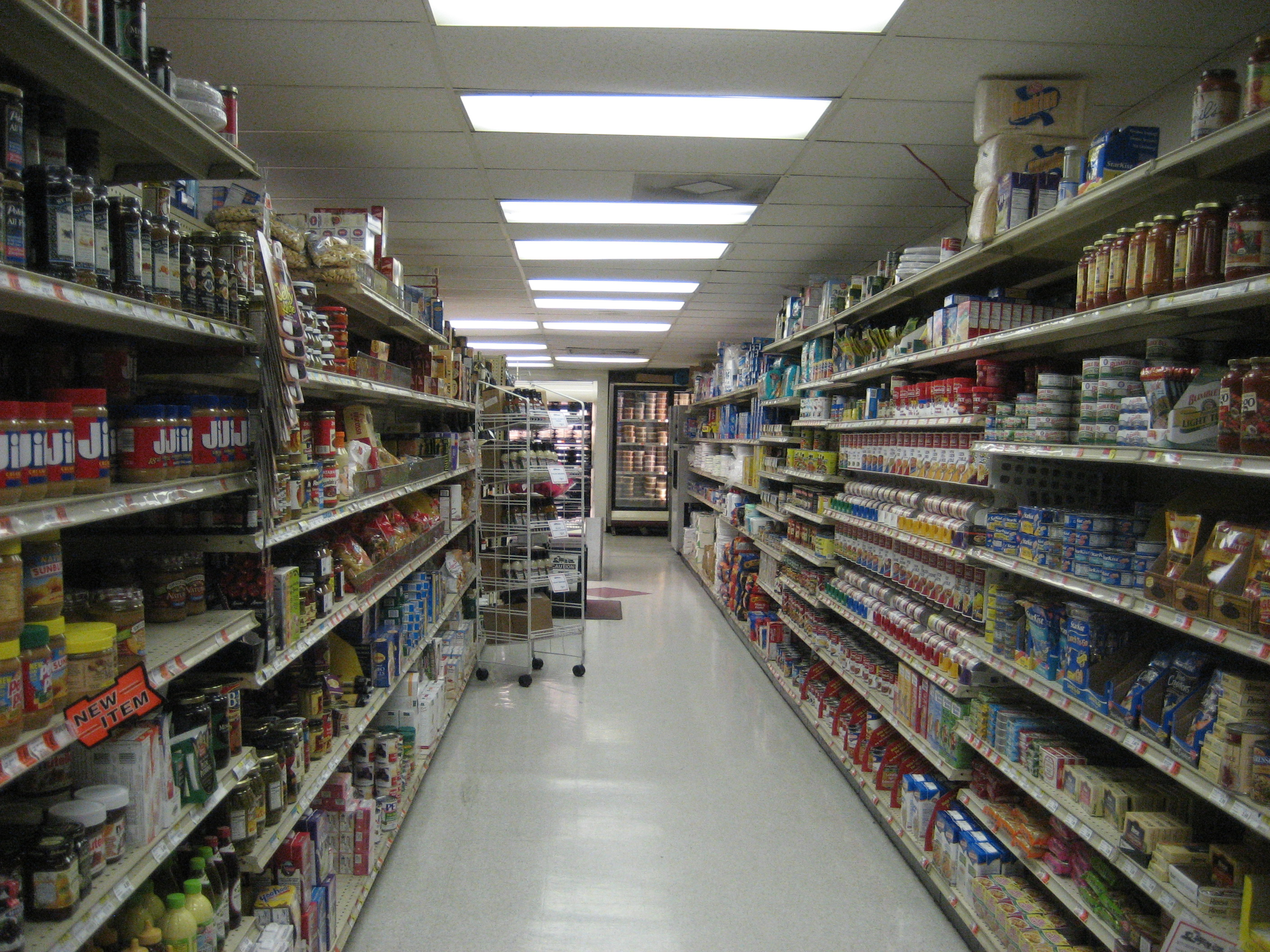 Aisle in Grocery store in New Orleans, 2008. (Langenstein's, Uptown)